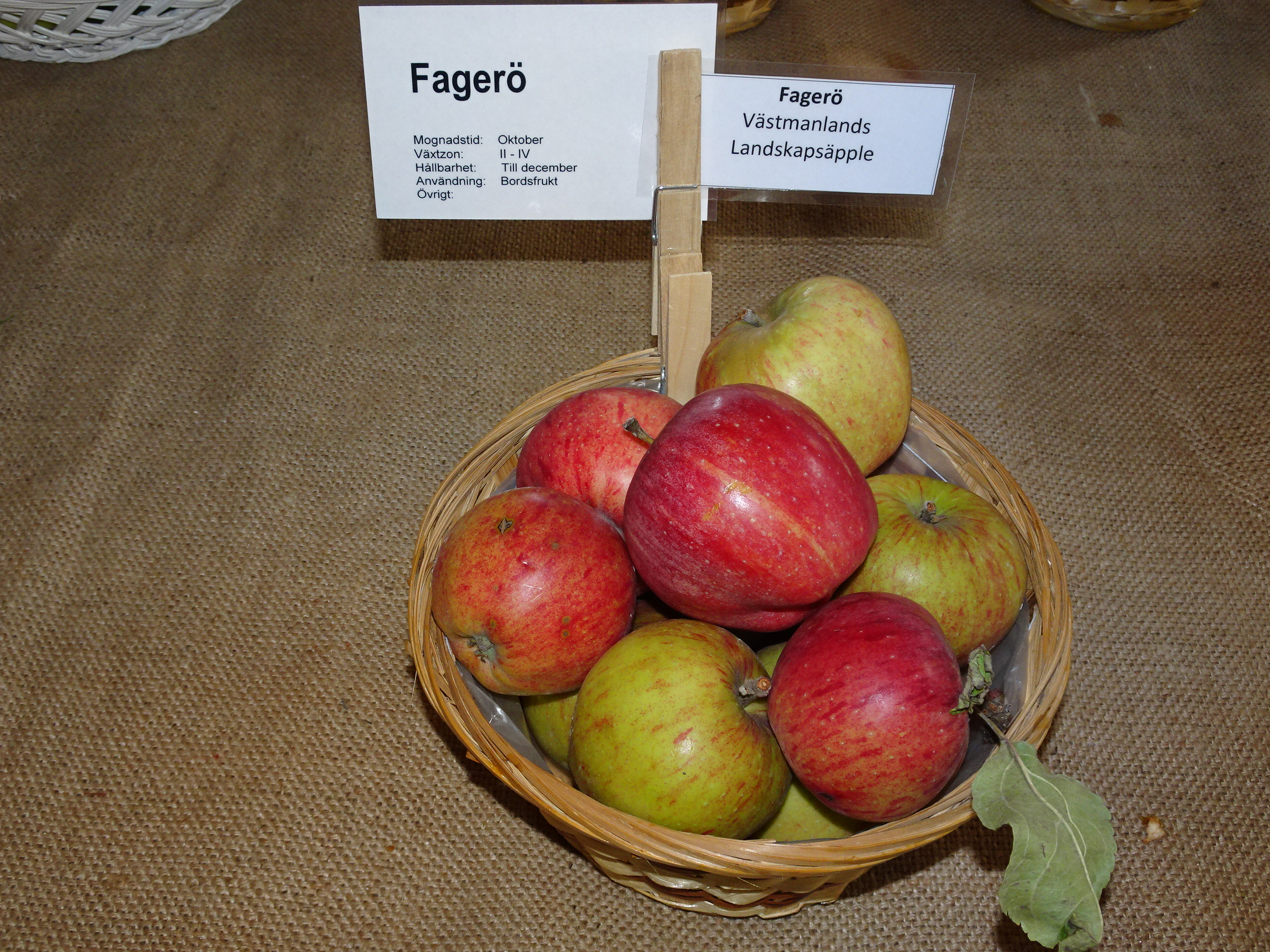 Fagerö, an apple cultivar, originally identified from trees on teh island of Fagerön in lake Mälaren, Sweden, displayed at Vallby Friluftsmuseum, Västerås, Sweden.